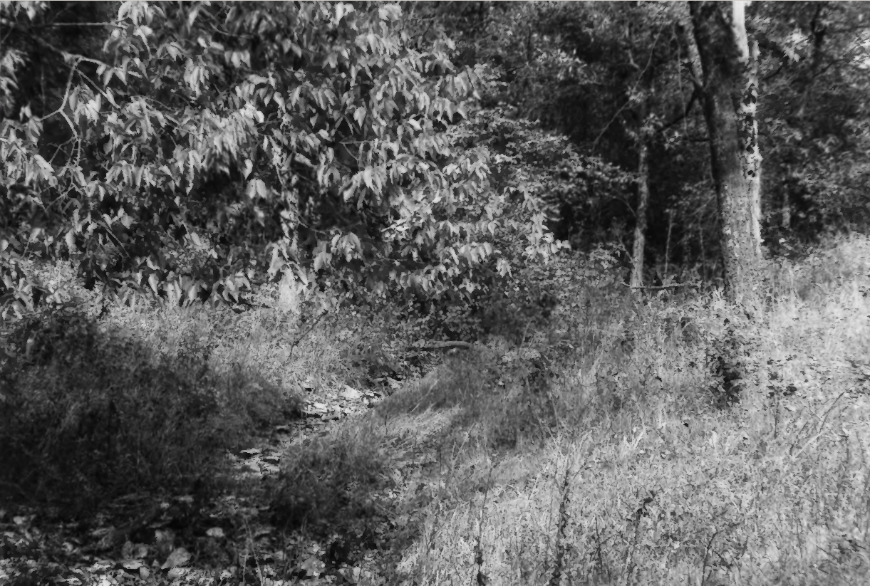 Site of the 1858 Marais des Cygnes Massacre, in Linn County, Kansas.